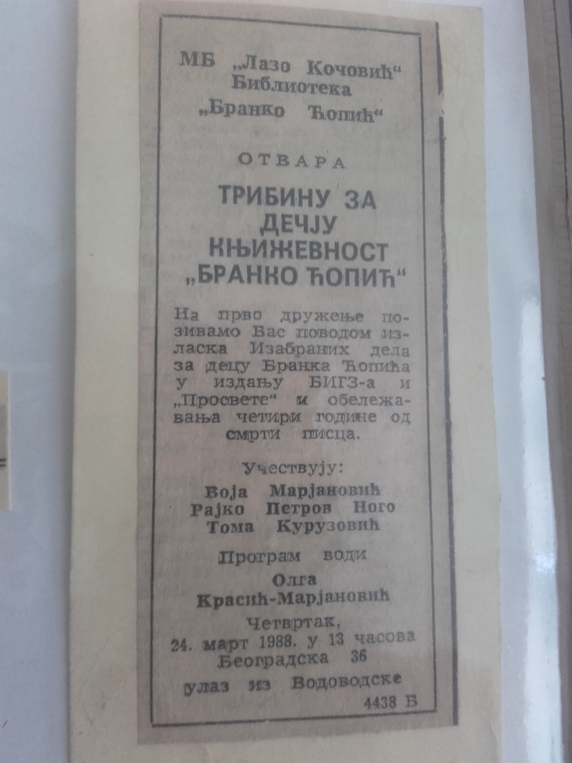 A tribune of literature for children and youth "Branko Ćopić" Srpski (latinica): Tribina književnosti za decu i omladinu "Branko Ćopić"